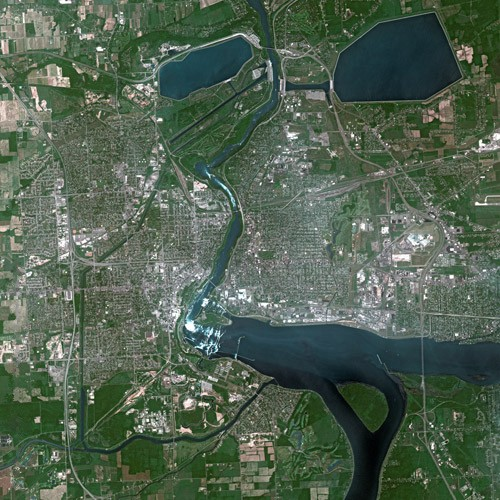 Niagara Falls by SPOT Satellite